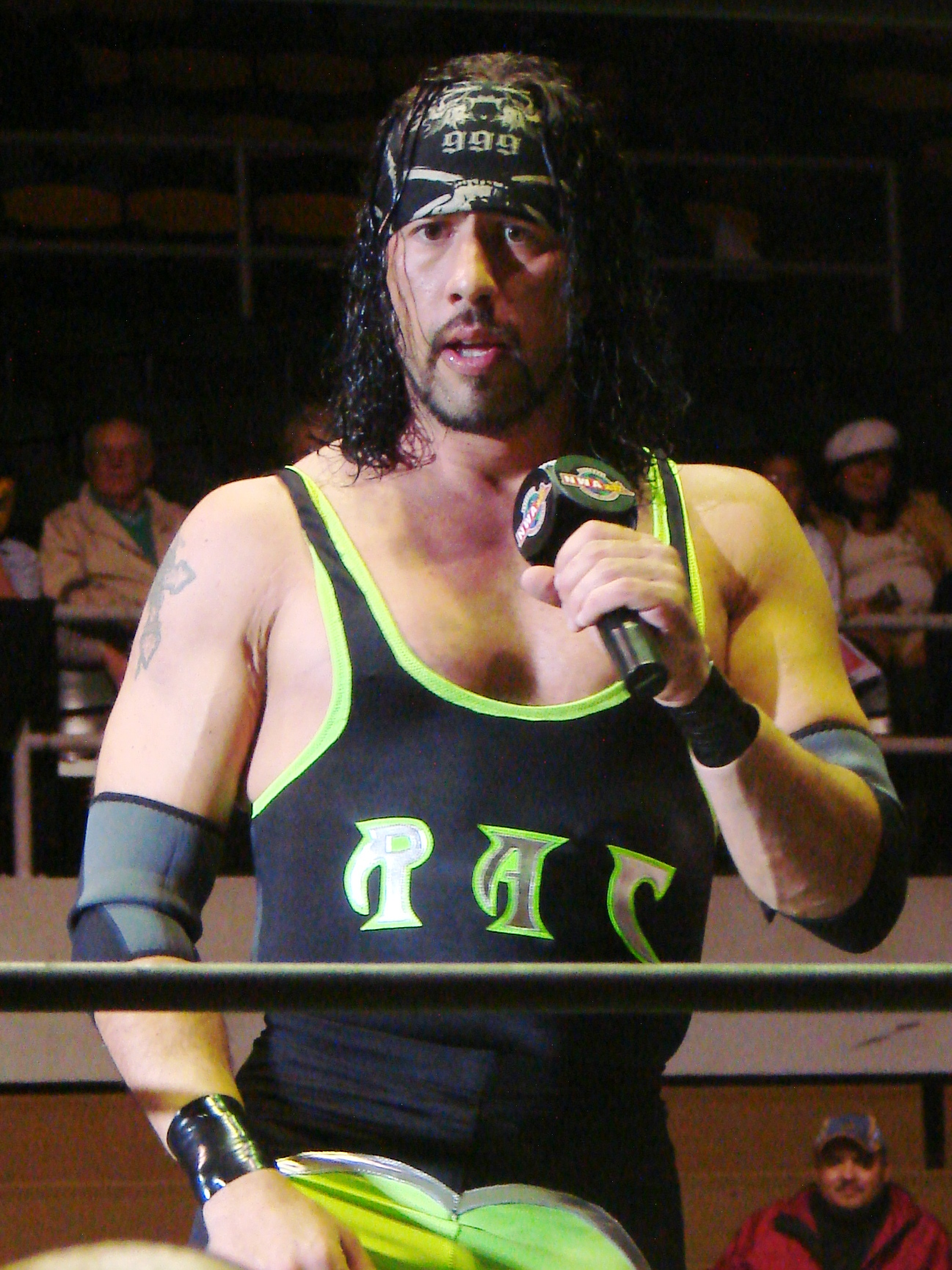 X-Pac (Sean Waltman). Hammond Civic Center, Hammond IN.